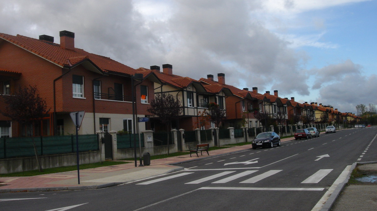 Houses in Betoñu (Vitoria-Gasteiz, Basque Country, Spain)